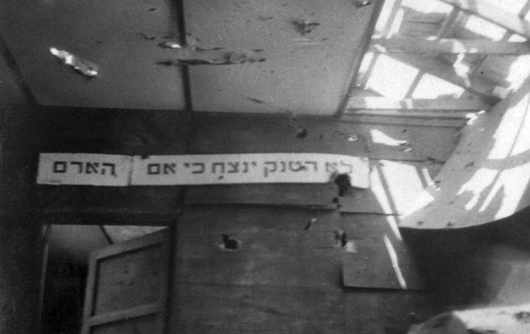 Sign at kibbutz Nirim in Israel, reading: "Not the tank will prevail, but the man". The sign was put up for the May 1 celebrations in 1948.